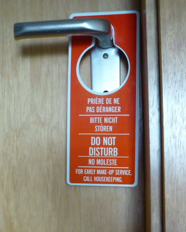 Common Do not disturb sign of a hotel